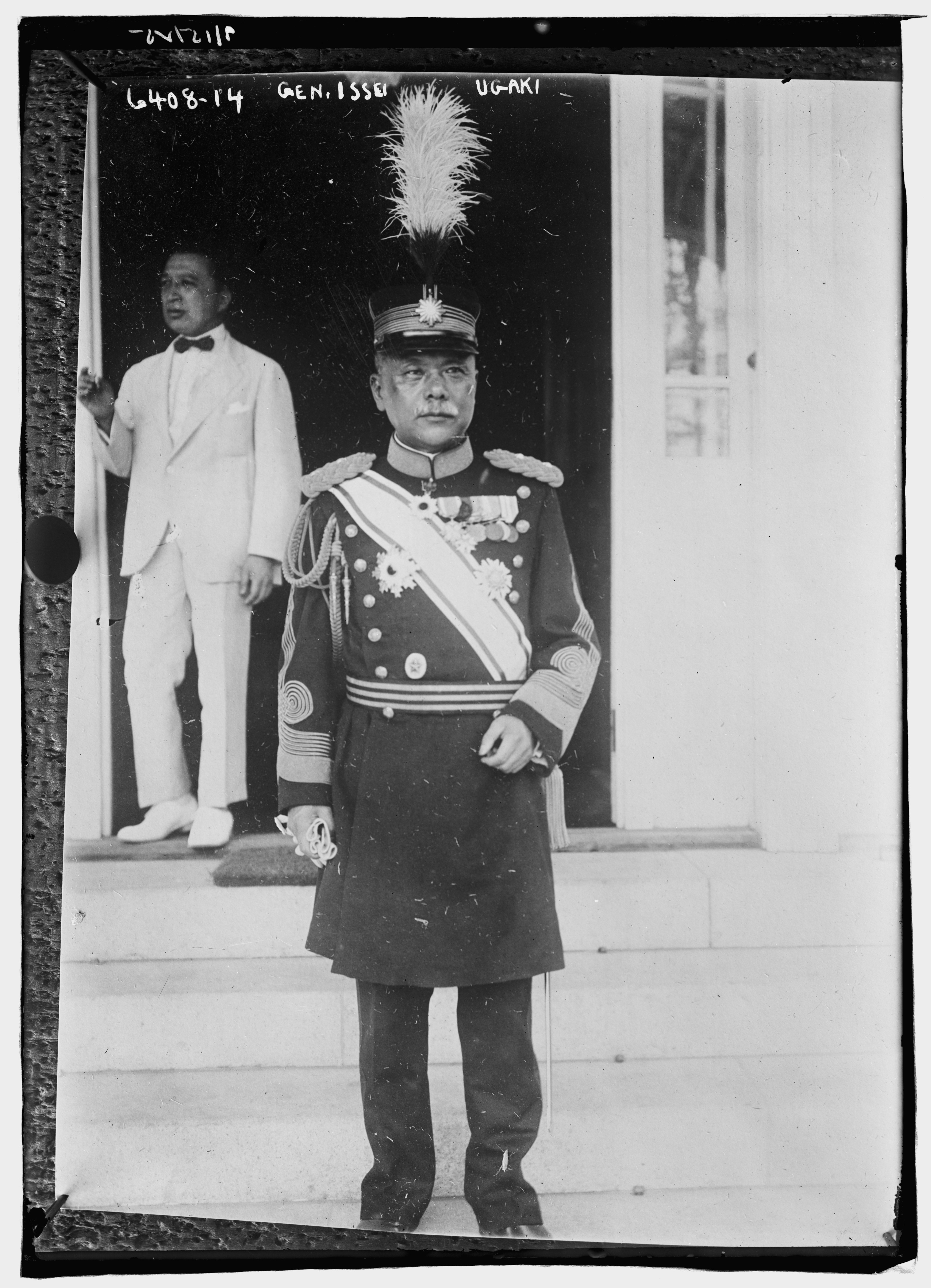 Title: Gen. Issei Ugaki Abstract/medium: 1 negative : glass ; 5 x 7 in. or smaller.